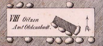 Megalithic tomb near Oetzen, Sprockhoff-No. 785